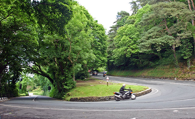 Ramsey Hairpin The scene of many a spill from both amateur and professional riders, this is a famous landmark on the TT course as one leaves Ramsey en route for the Mountain section.